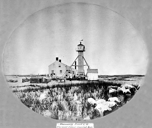 Title: Monomoy Lighthouse, Vineyard Sound, MA, circa 1865. Category: PHOTOGRAPHS. Type: albumen print. Maker: Masury, Samuel. Place: USA, MA, Vineyard Sound; USA, MA, Cape Cod; USA, MA, Monomoy Point. Date: Circa 1865. Materials: paper. Description: Albumen print of Monomoy Point Lighthouse, Vineyard Sound, MA, circa 1965. Oval picture on rectangular mount, men seen sitting on barrels in front and a man is seen standing in the tower. Handwritten in pencil on mount below picture at left: "Monomoy Point" and hand printed in pen below: "Monomoy Point L.H./ Vineyard Sound, Cape Cod, Mass." and embossed in oval below: "MASURY'S/ PHOTOGRAPH/ BOSTON." Samuel Masury, 1818-1874. Handwritten in pencil on back: "Monomoy Point/ Cape Cod/ Mass." Two holes have been punched at top of its mount for hanging or binding photograph in an album.